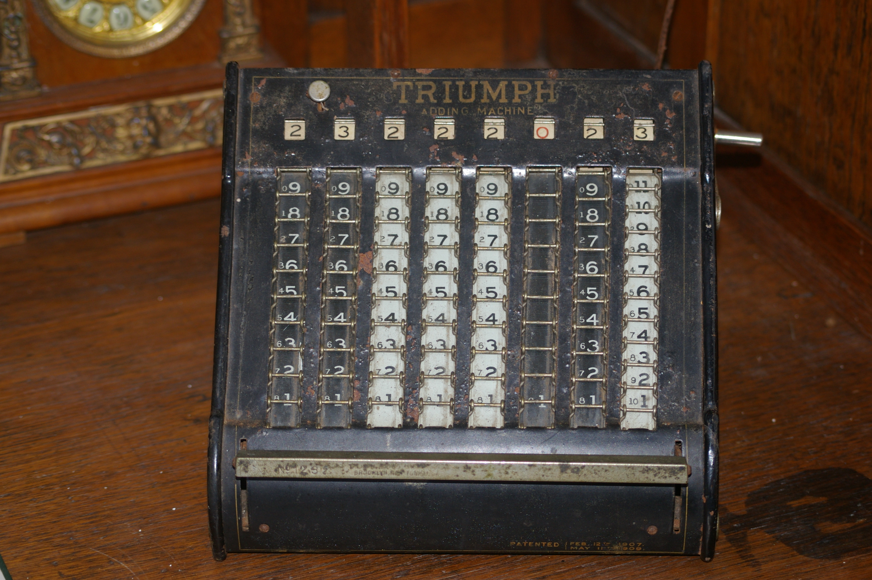 Triumph adding machine #1232 c1910, in Australian pounds,shilling,pence note the complement numbering as the machine is unable to perform subtractions